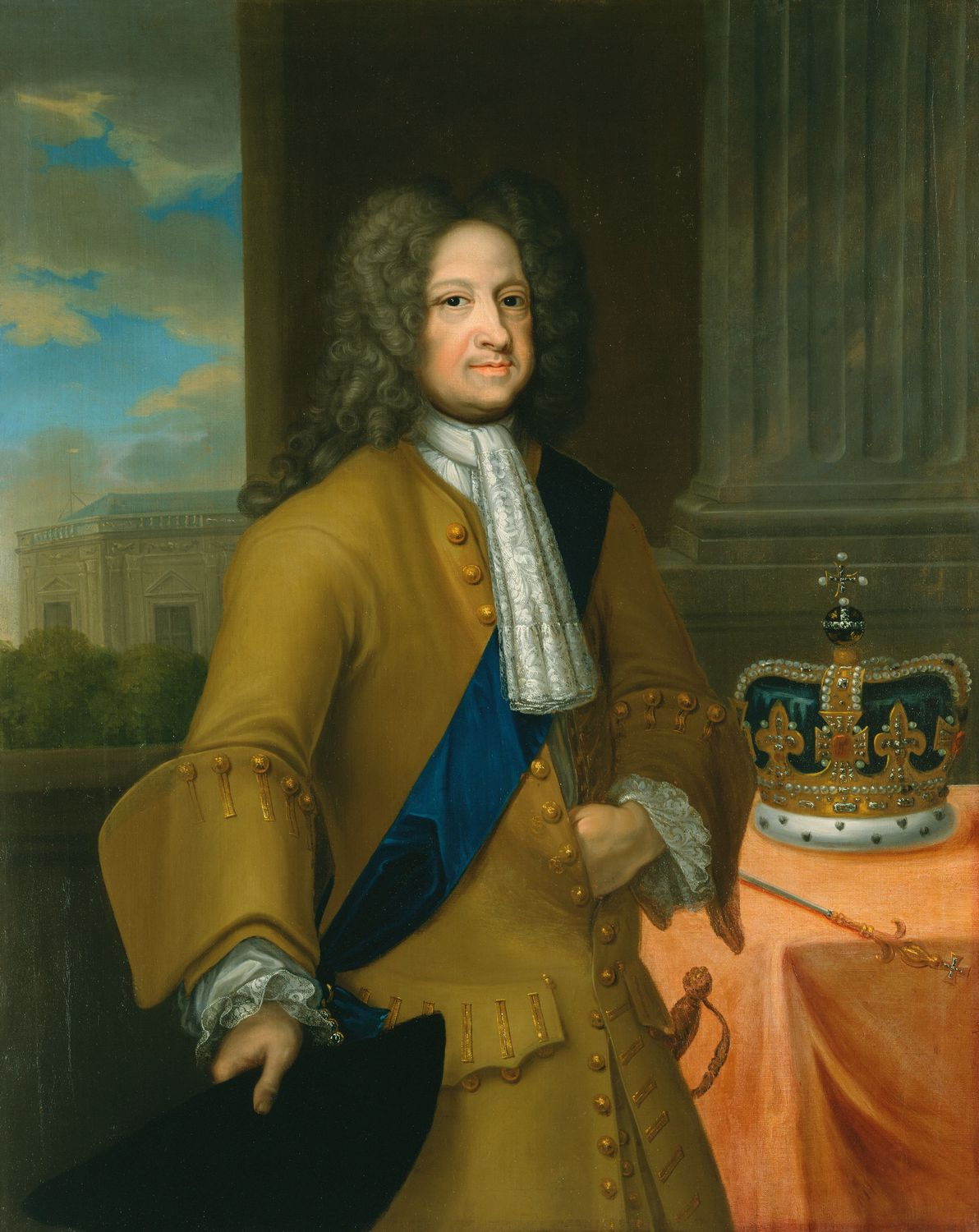 George I of Great Britain (1660–1727, r. 1714–1727)